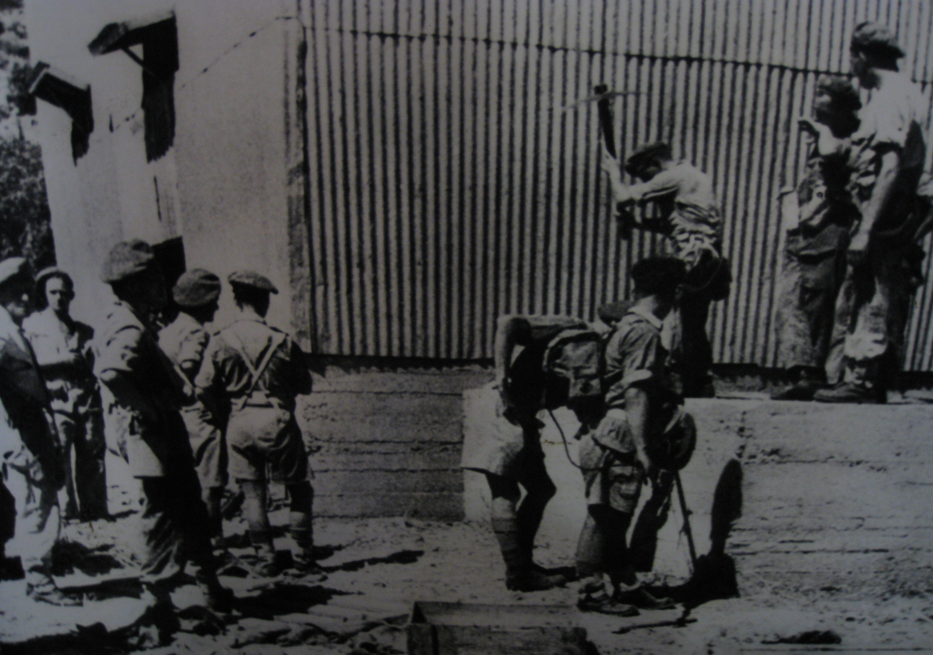 British soldiers search for the "Slik" - Hagana arms cache in Kibutz Yagur